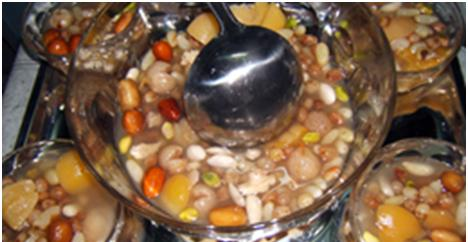 Haft mewa, A Persian dish and a nowruz tradition.